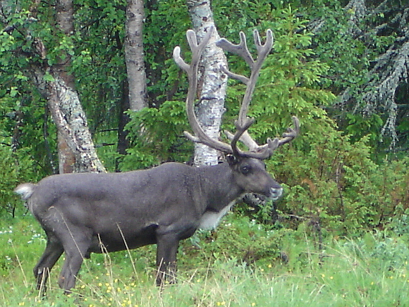 Rangifer tarandus